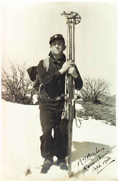 Black and white photograph of William Frances "Bill" Waters, Victorian Rover Scouting notable in Australia and prominent bush walker and cross country skier in Victoria, standing in the snow holding skis.